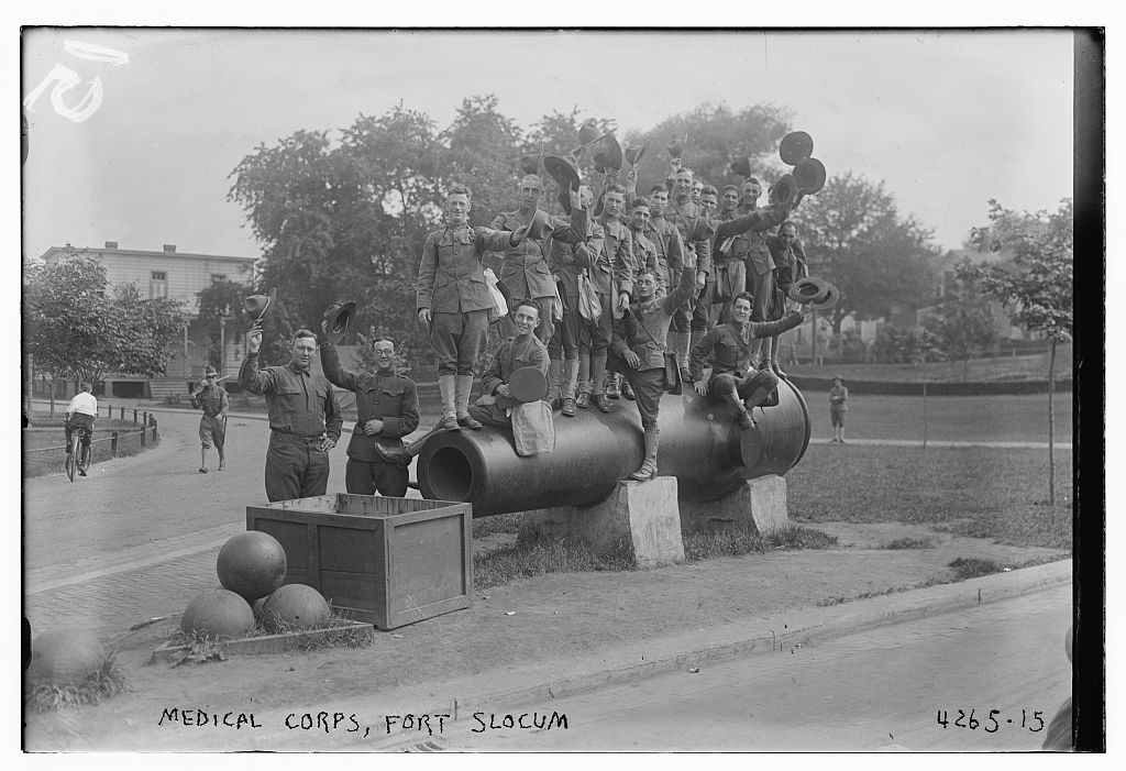 Men in uniform posing on cannon